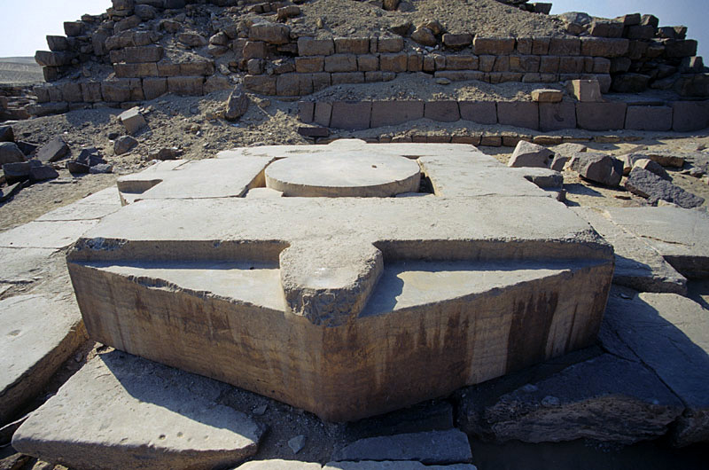 Altar in the Sun temple of Niuserre, Abu Ghurab, Egypt